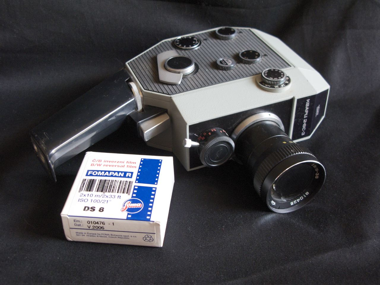 Soviet Super 2х8 film camera Quartz 2x8S-3